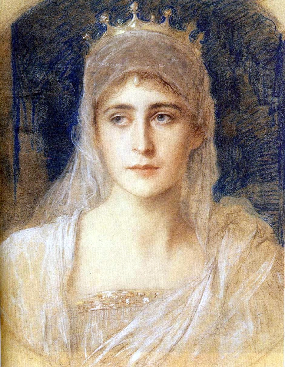 Portrait of Grand Duchess Elizabeth Fyodorovna (1864-1918)